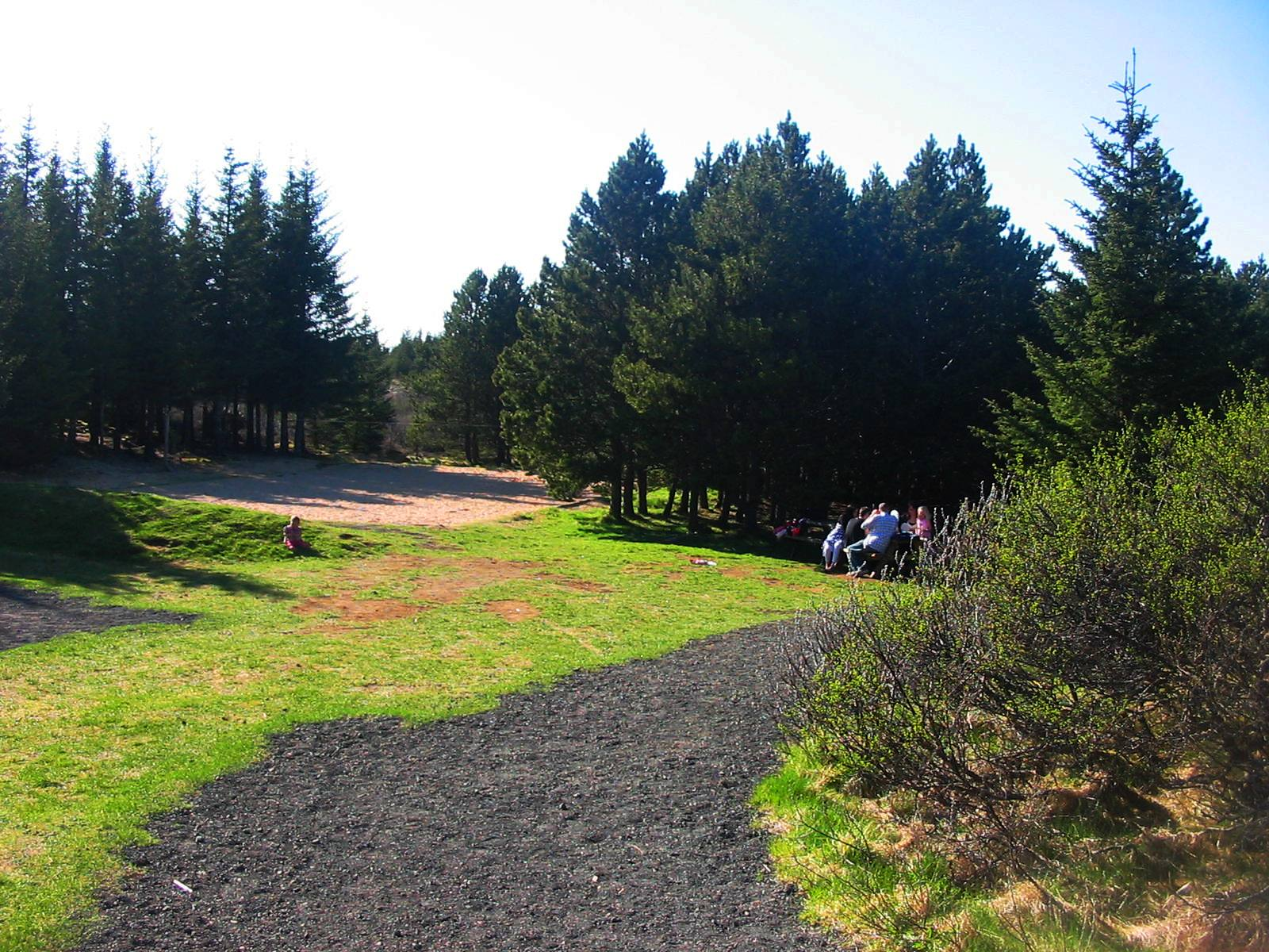 Heiðmörk natural reserve, Reykjavik, Iceland